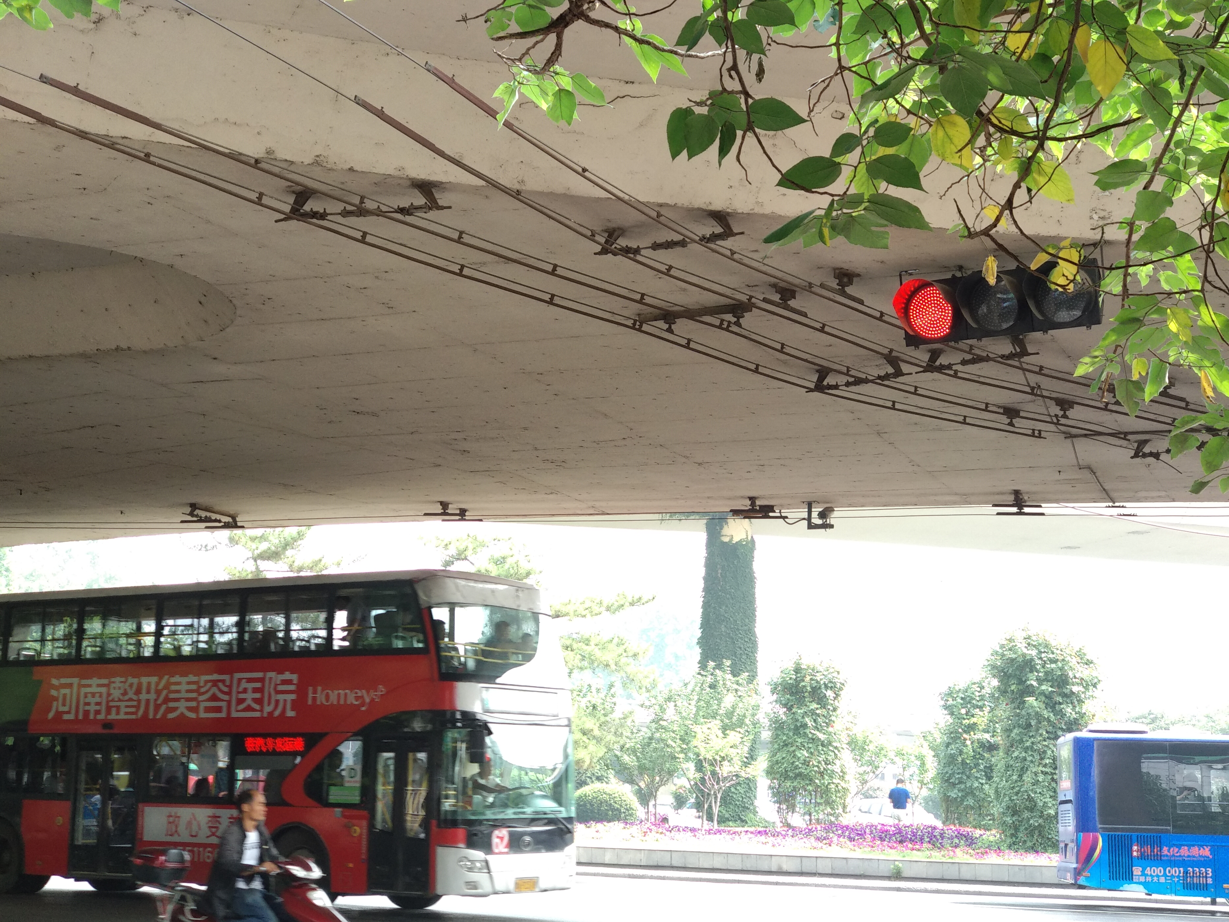 There used to be a trolleybus system in Zhengzhou, but was undone several years ago, due to the construction of Zhengzhou Metro.